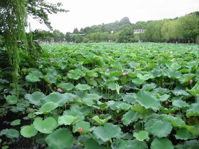 The Shinobazu-ike pond in Tokyo, full of lotus flowers.